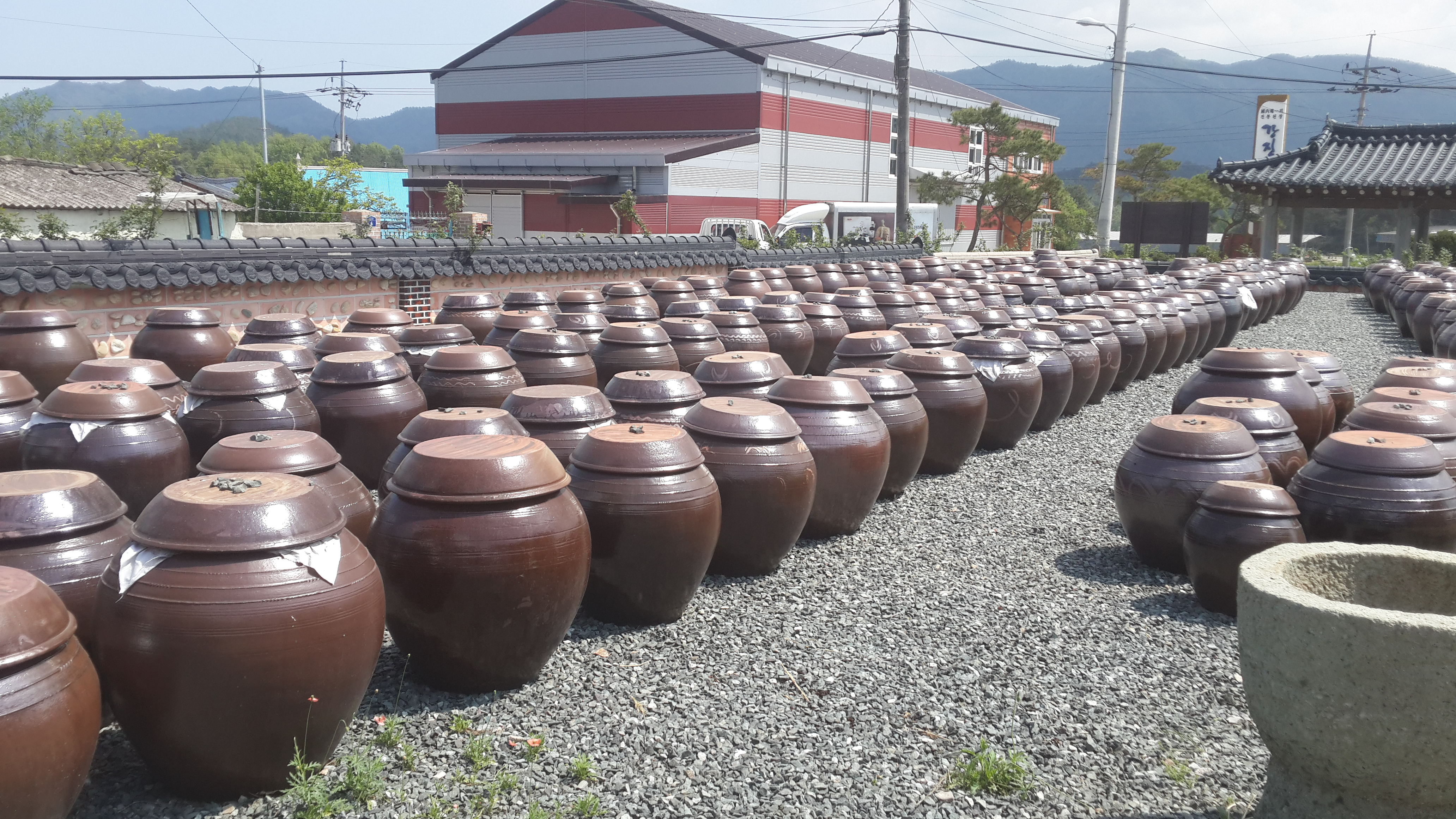 Korean traditional potteries (Jangdok) which are utilized to make a conservation of fermented sauces such as doenjang and gochujang.